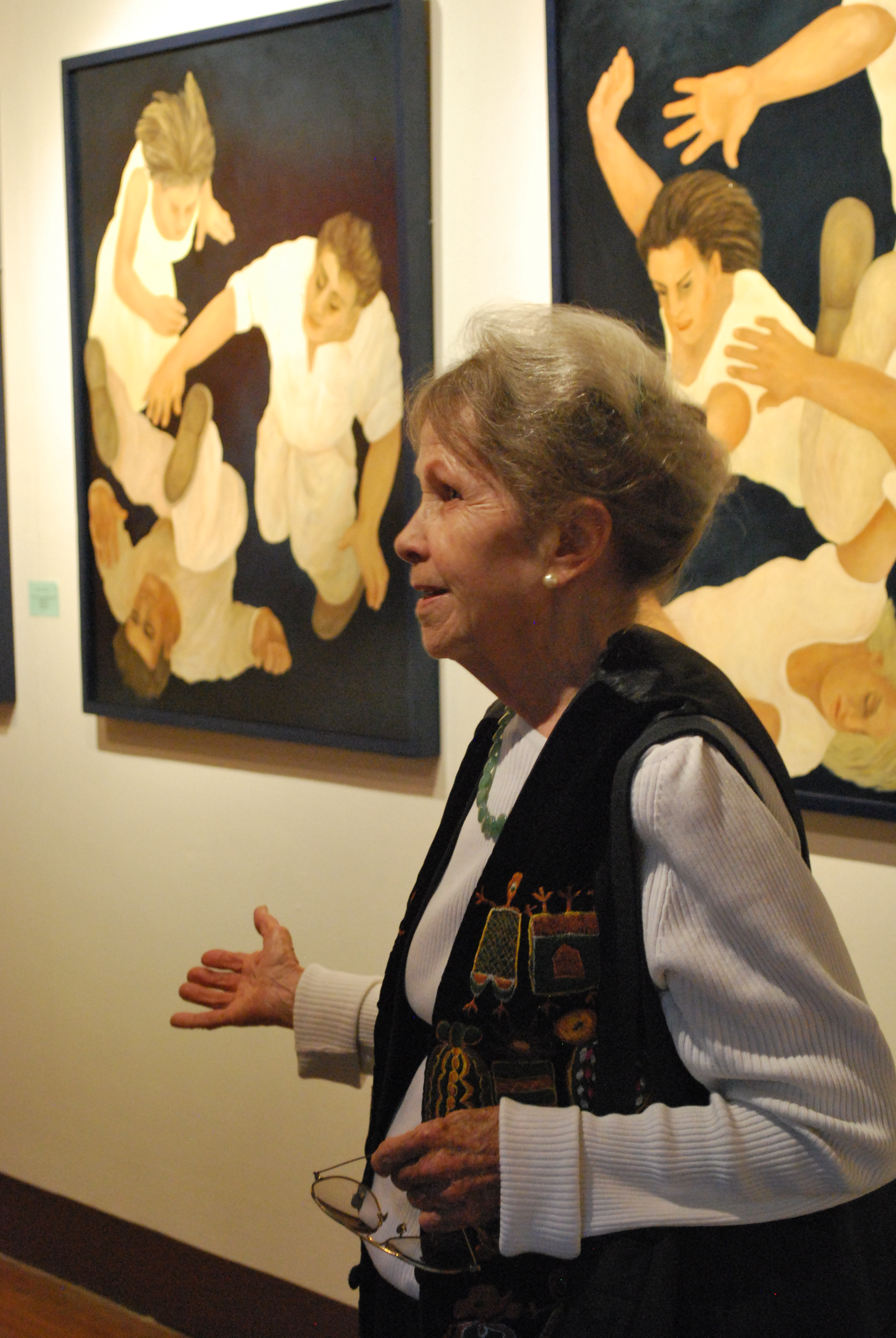 Helen Bickham talking about her paintings at an exhibition at the Joaquin Arcadio Pagaza museum in Valle de Bravo, Mexico